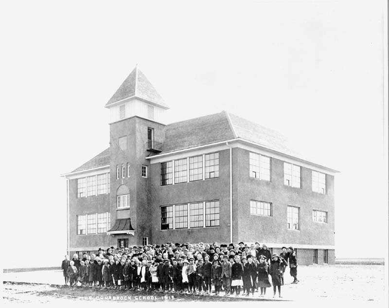 Osnabrock School in 1918 in North Dakota - staff and students